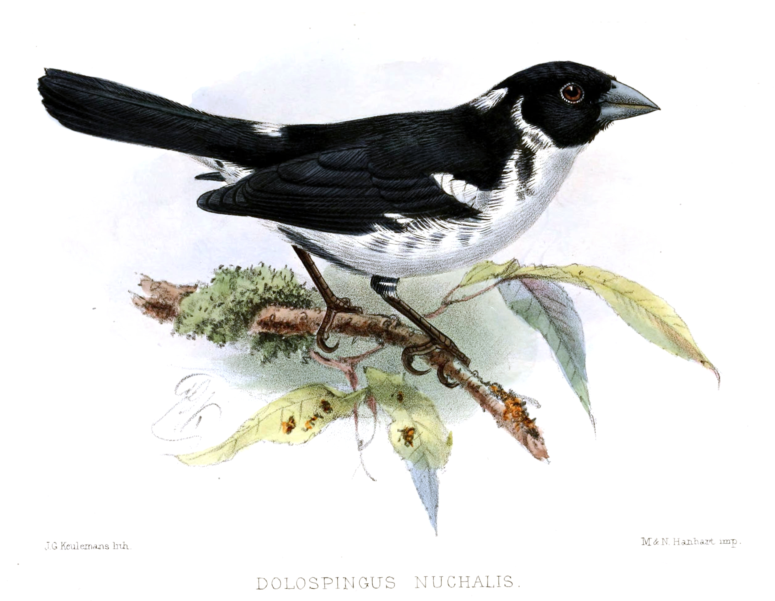 « Dolospingus nuchalis » = Dolospingus fringilloides (White-naped Seedeater)